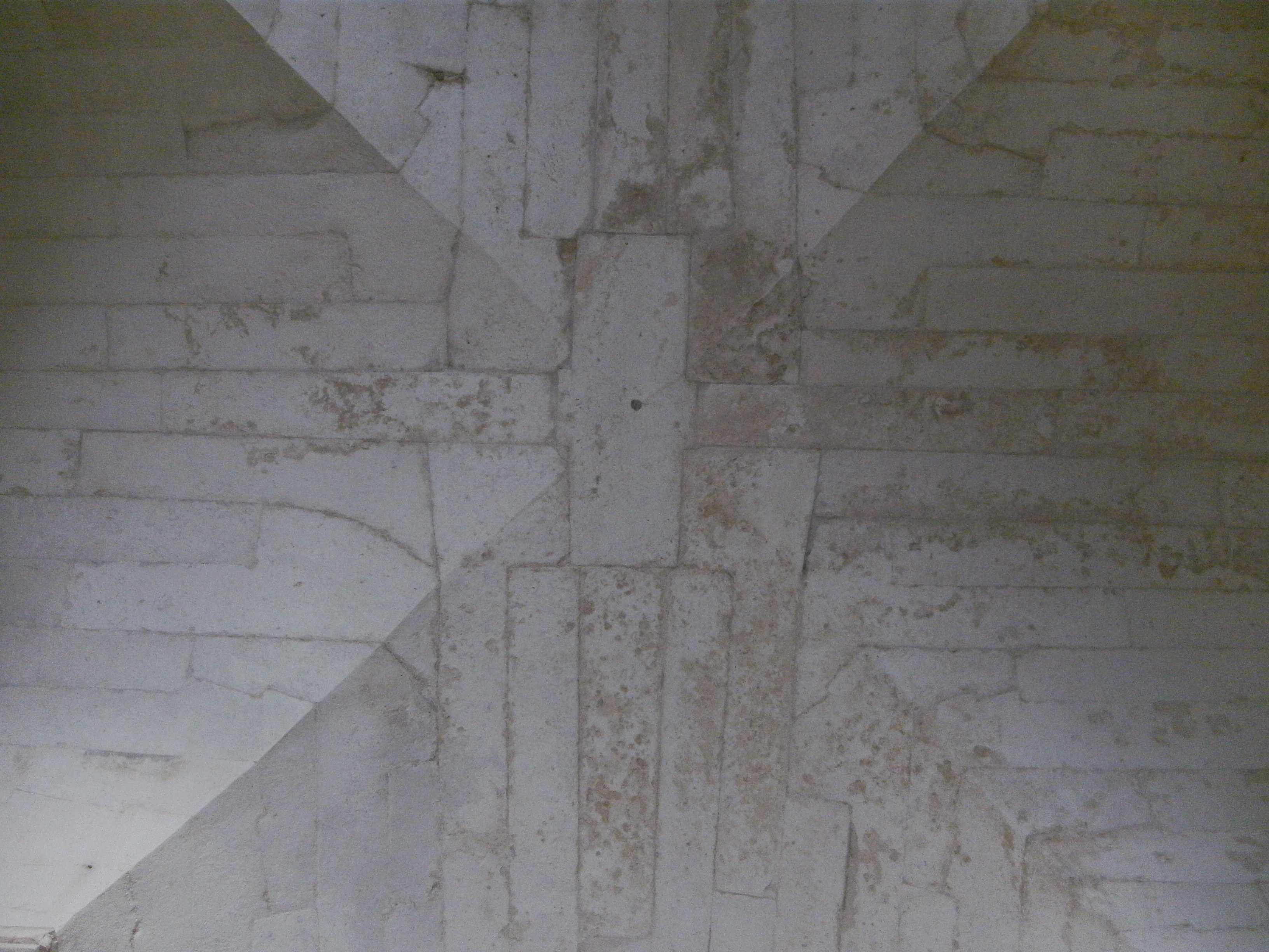 Ceiling of the tomb chamber.